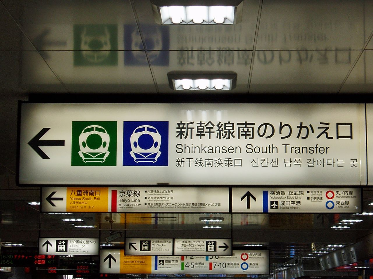 Information Board at Tokyo Sta. of Shinkansen. Sign in four languages: Japanese, English, Chinese, and Korean